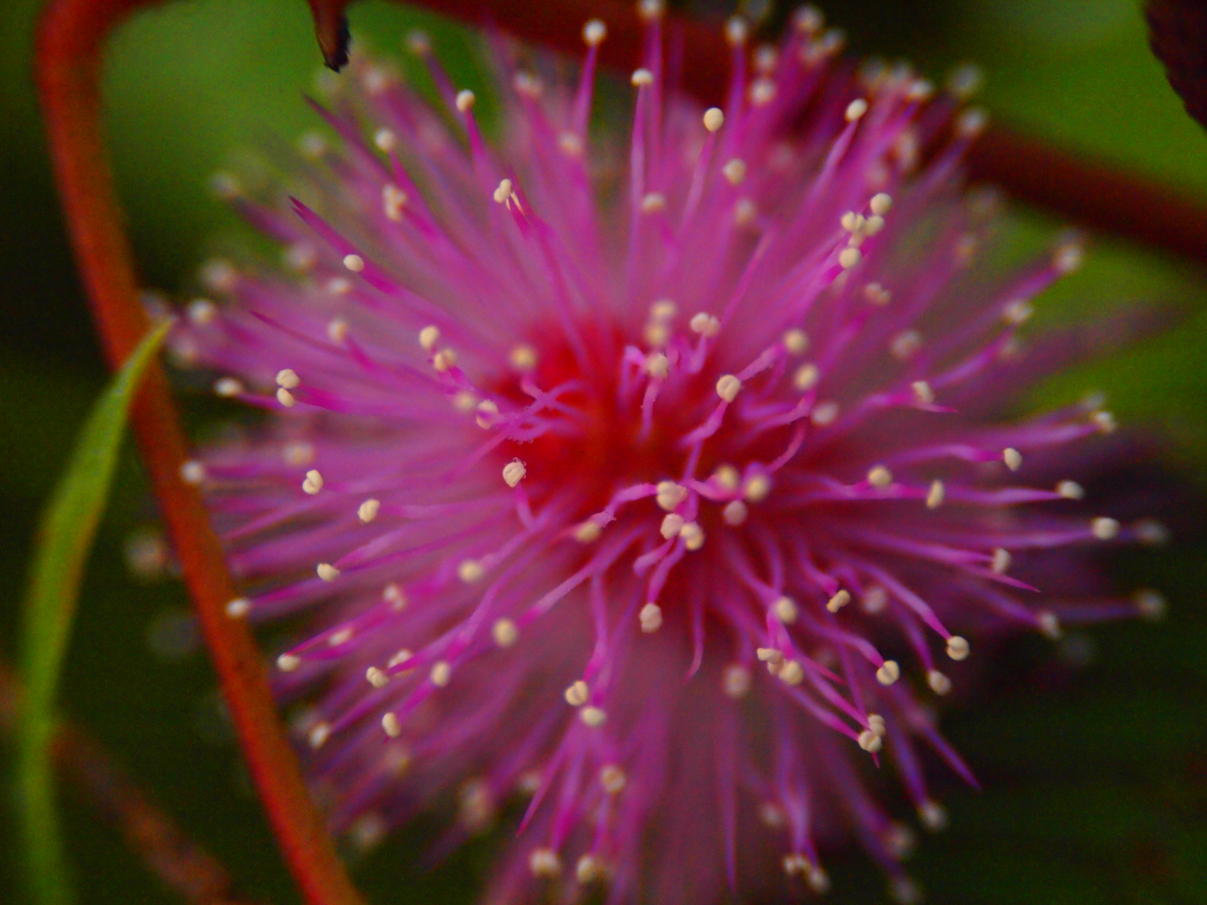 The flower of Mimosa pudica in Malaysia